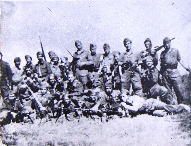 Partisans of the battalion "Stiv Naumov", set up in November 1943 in Gorna Prespa, Aegean Macedonia This media file is produced by Wikipedian in Residence in Category:Wikipedian in Residence at DARM in 2016.